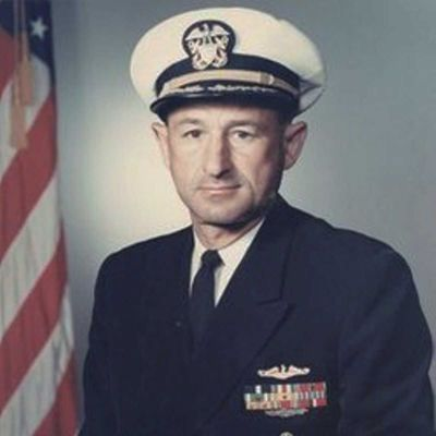 Rear Admiral Maurice H. Rindskopf, USN. 1917-2011 At his death, the last surviving World War II U.S. submarine commanding officer.